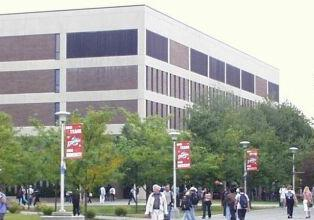 Frank Melville Jr. Library at Stony Brook University. Picture created by myself, free to use by anyone.